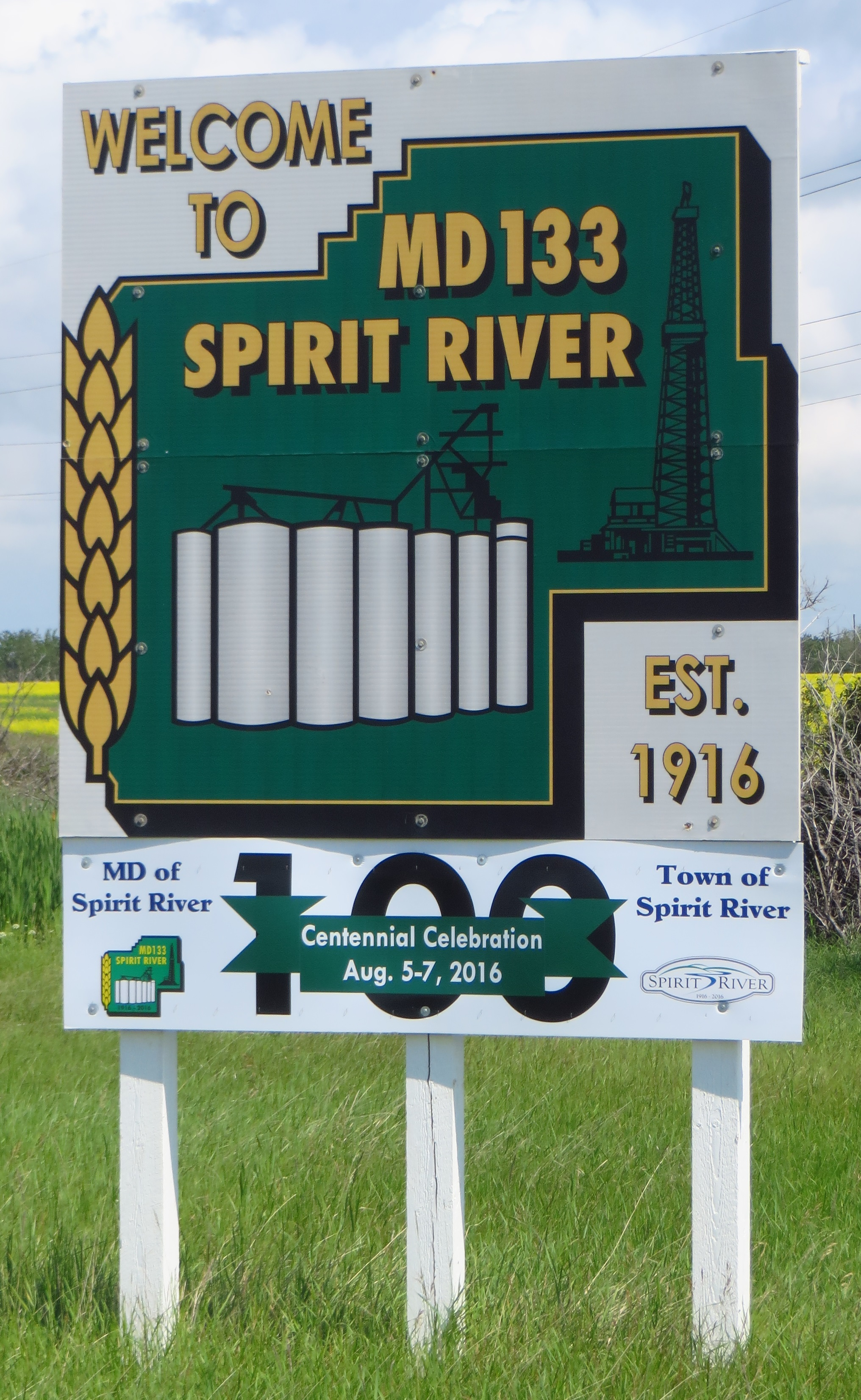 A sign welcoming drivers to the MD of Spirit River